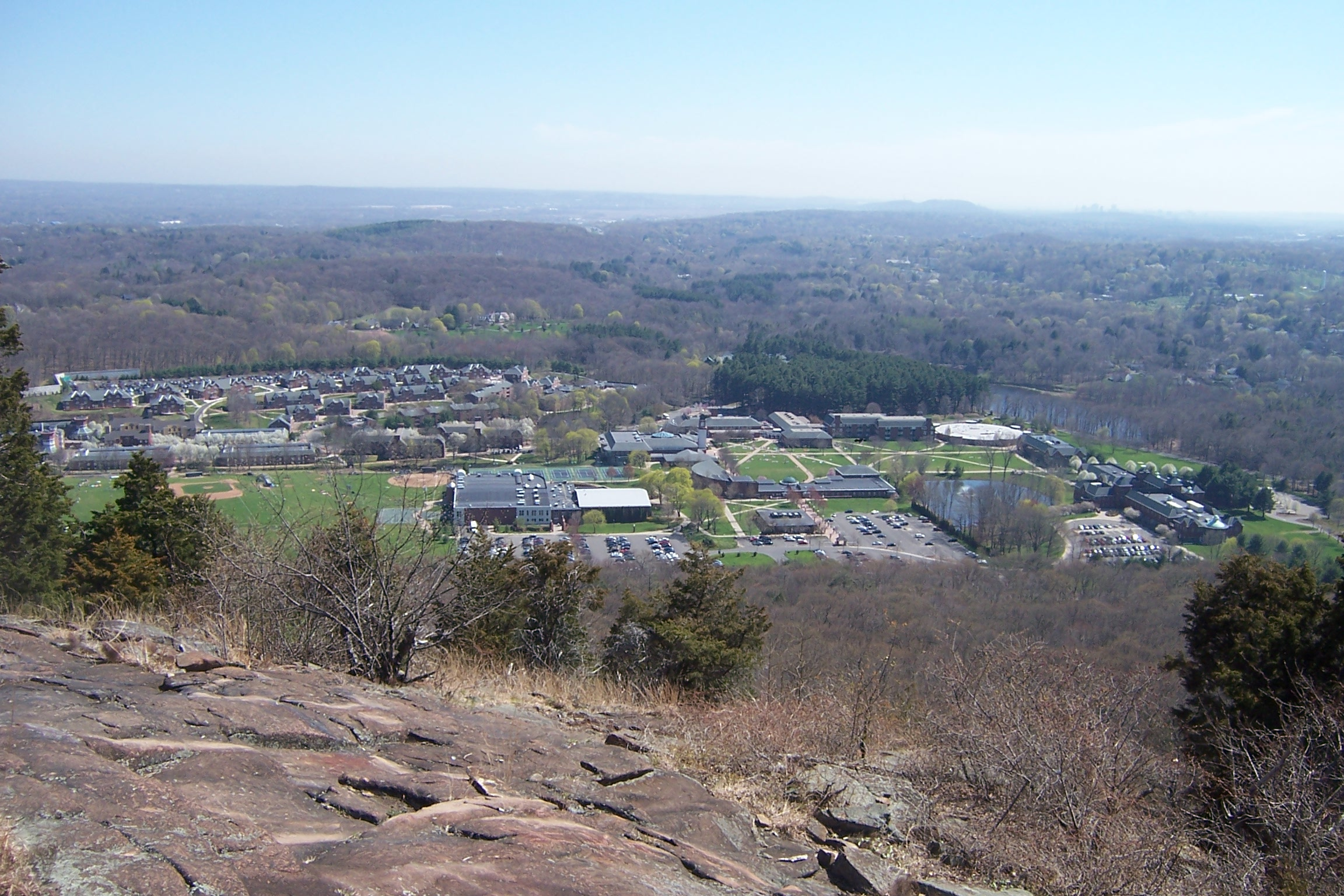 The main Quinnipiac University campus, from atop Sleeping Giant.